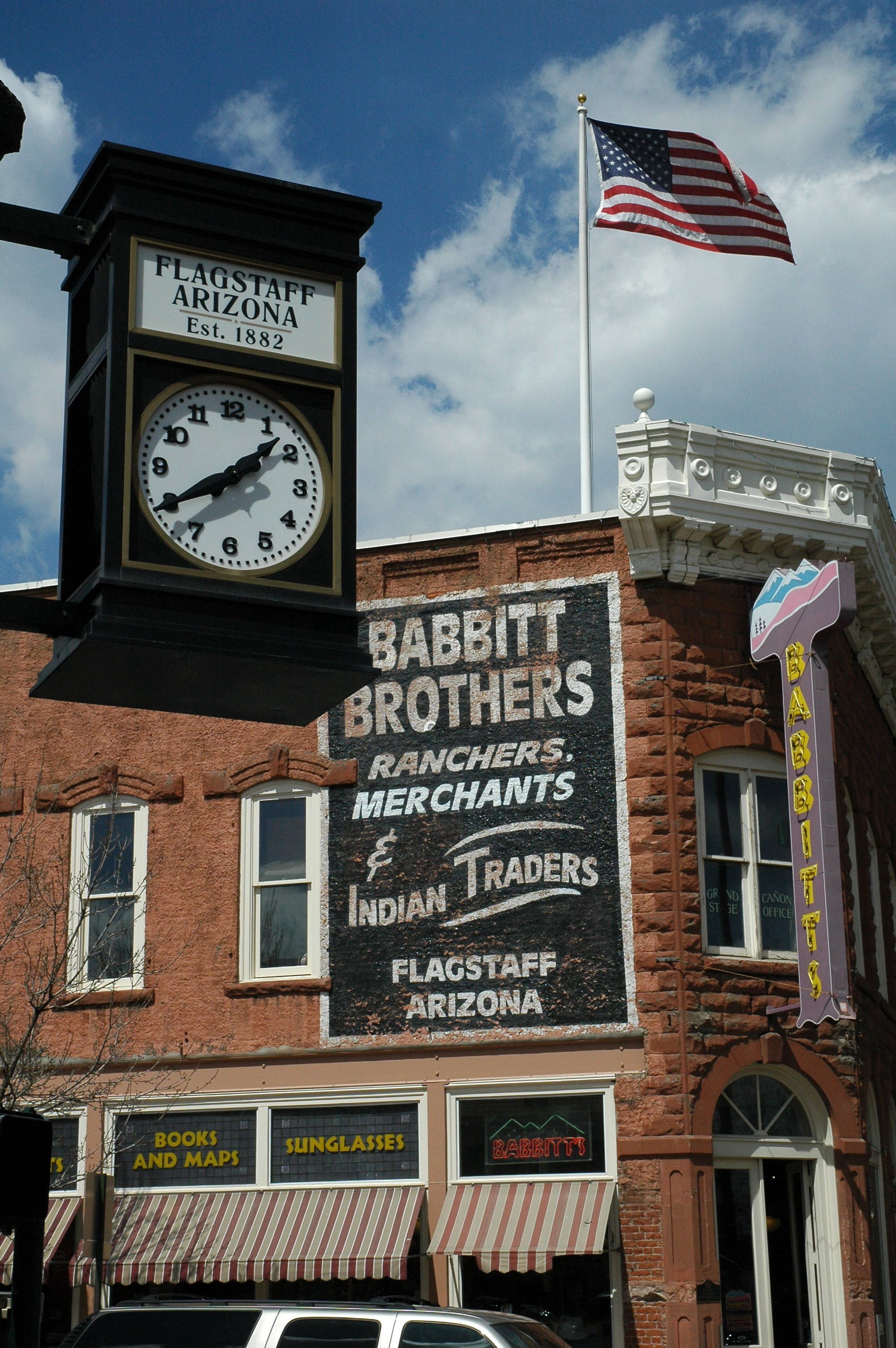 Downtown Flagstaff.